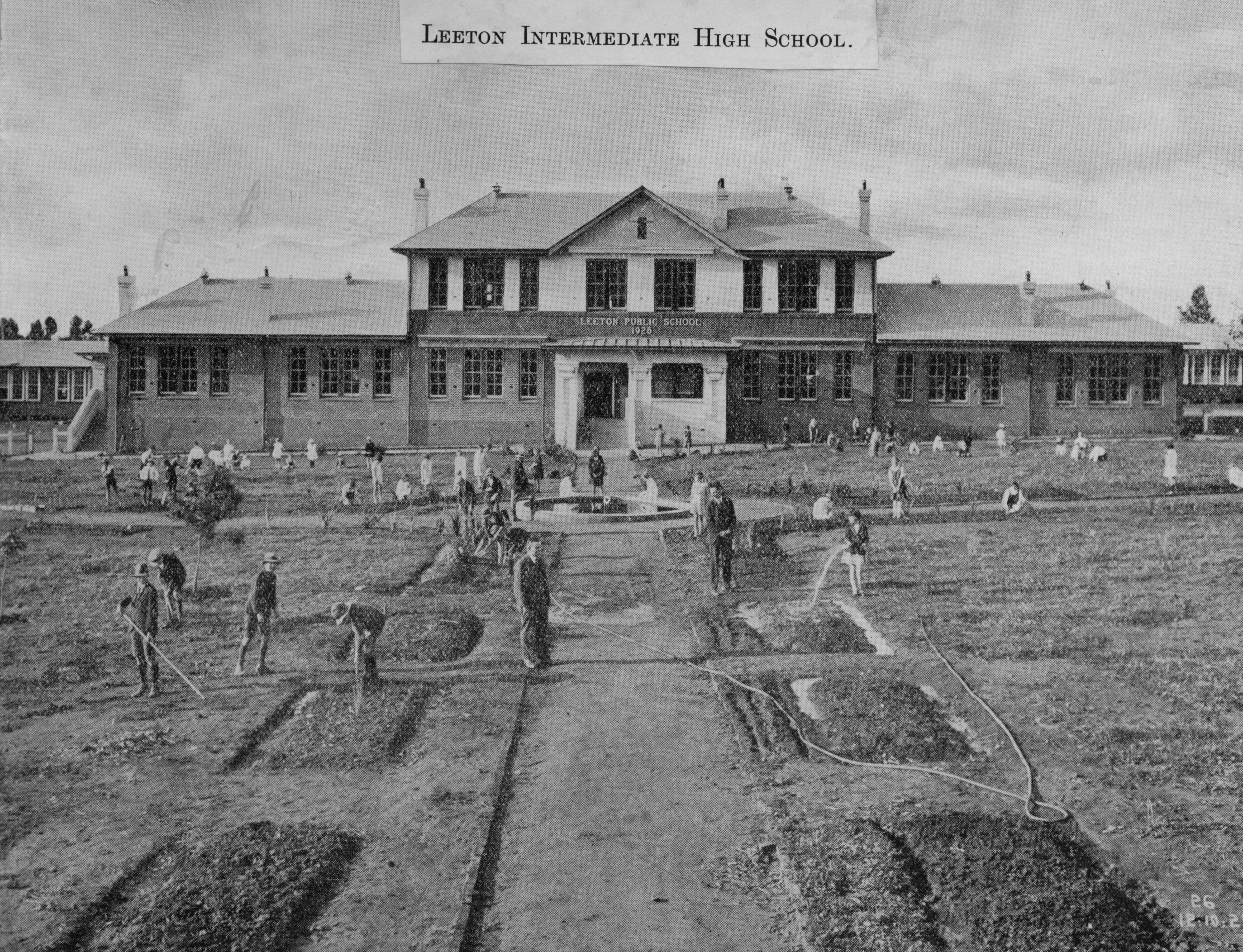 Taken 12 October 1927 showing the “Old building” opened by Hon H.D. Hutch M.L.A. Minister for education